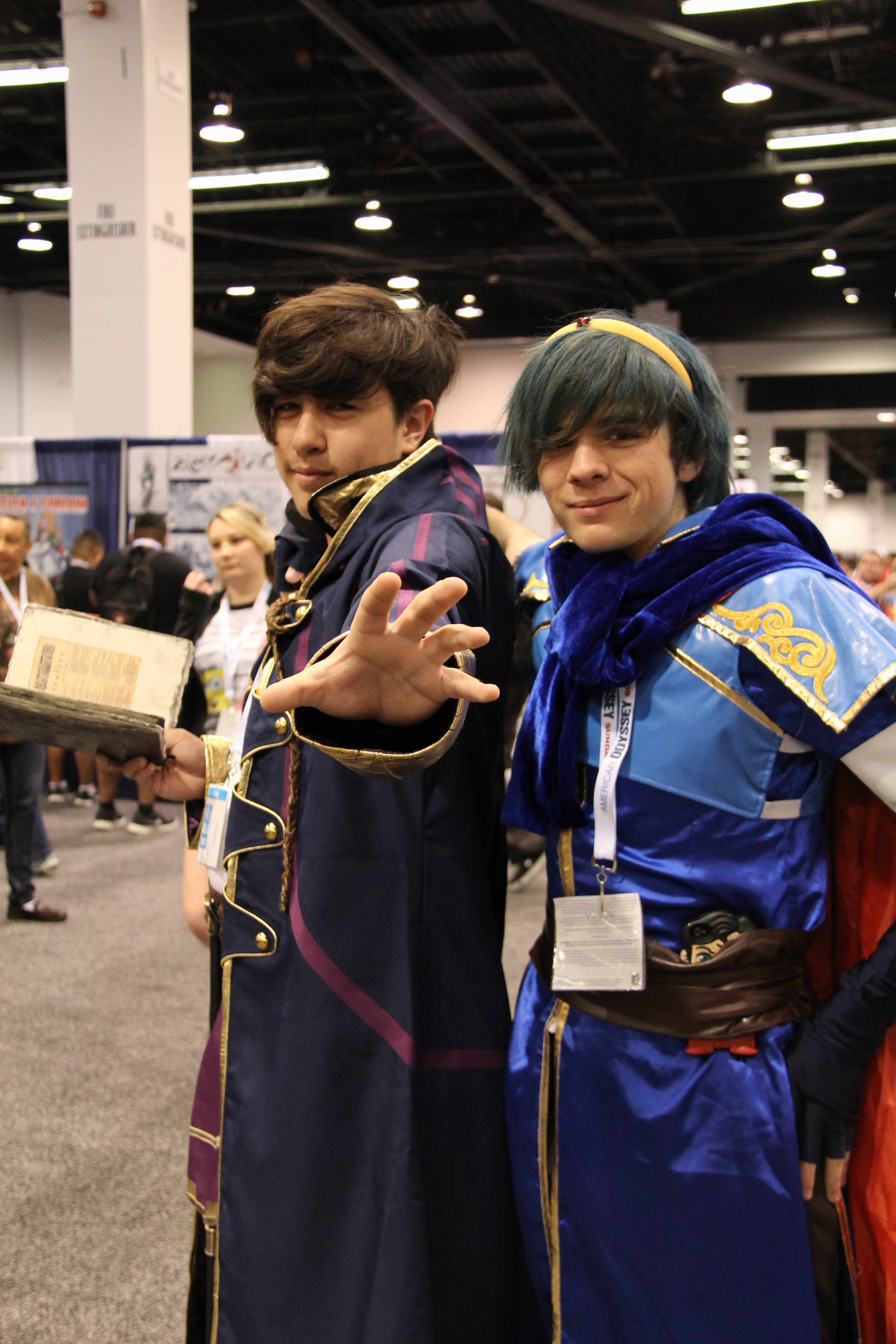 A cosplay of Robin [left] and Marth [right] from the Fire Emblem series